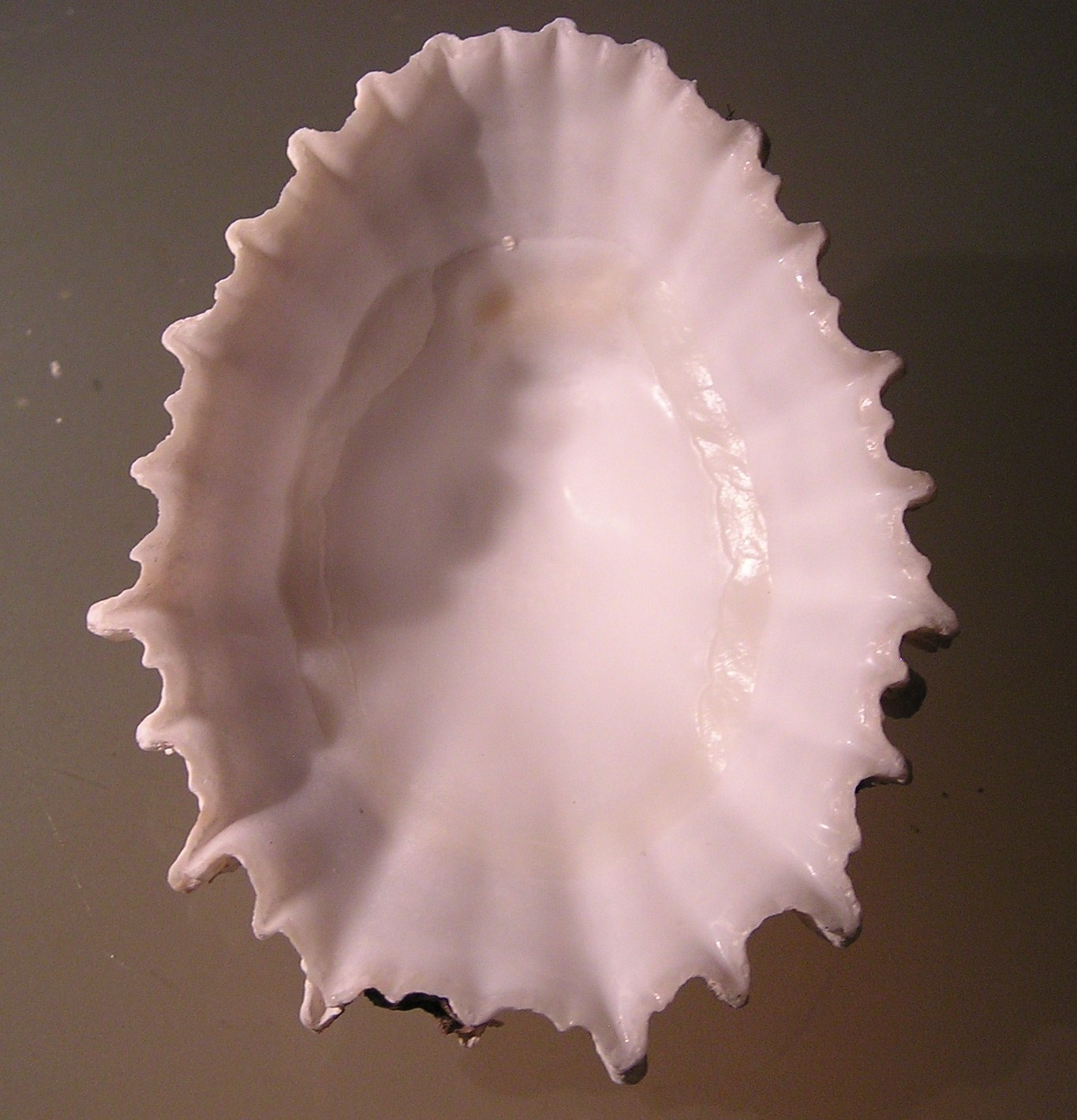 Patella ferruginea Gmelin, 1791; a limpet from the family Patellidae; Bretagne, France